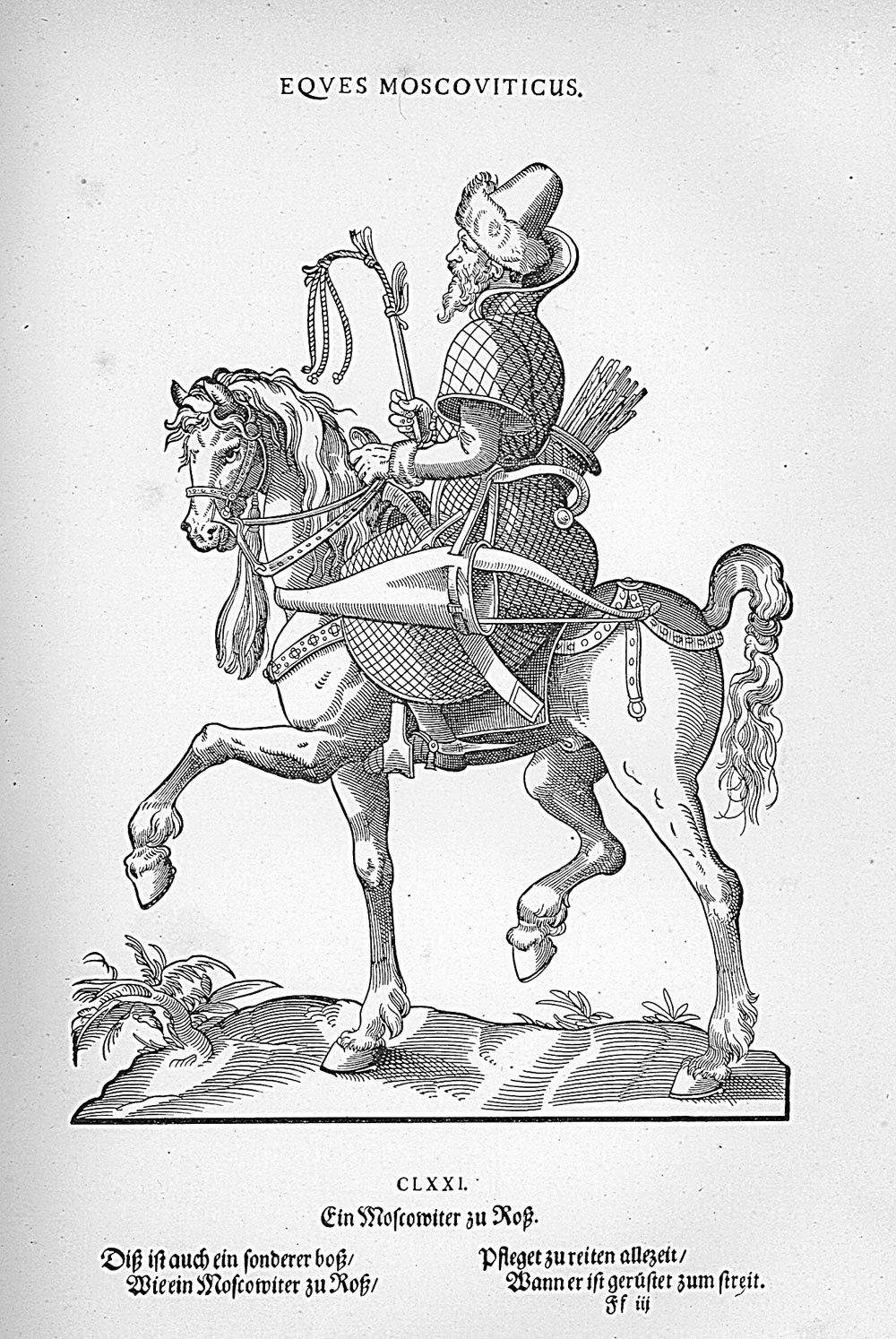 Muscovy cavalerist.